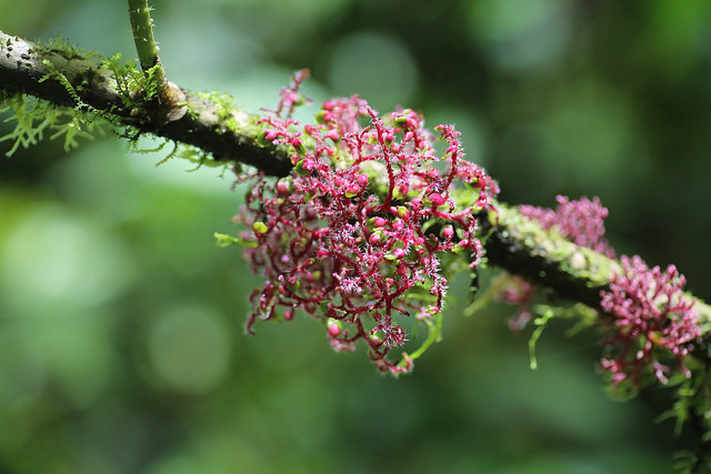 Urera baccifera, Ecuador, Mindo, Rio Bravo Reserve.